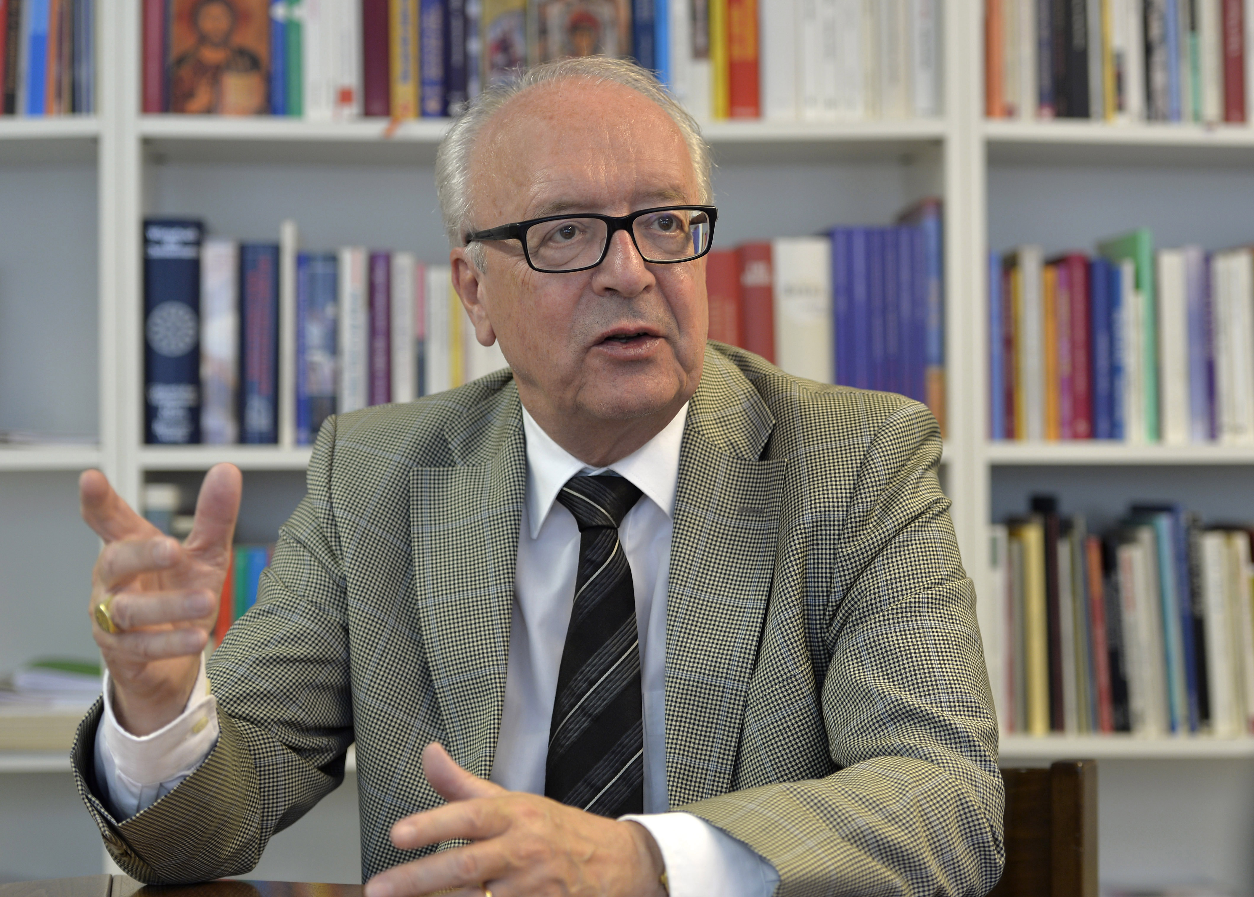 Frank Jehle Aufnahme: Regina Kühne